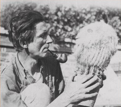 Alberto Vojtech Frič in Praha, villa "Bozinka" (1924)